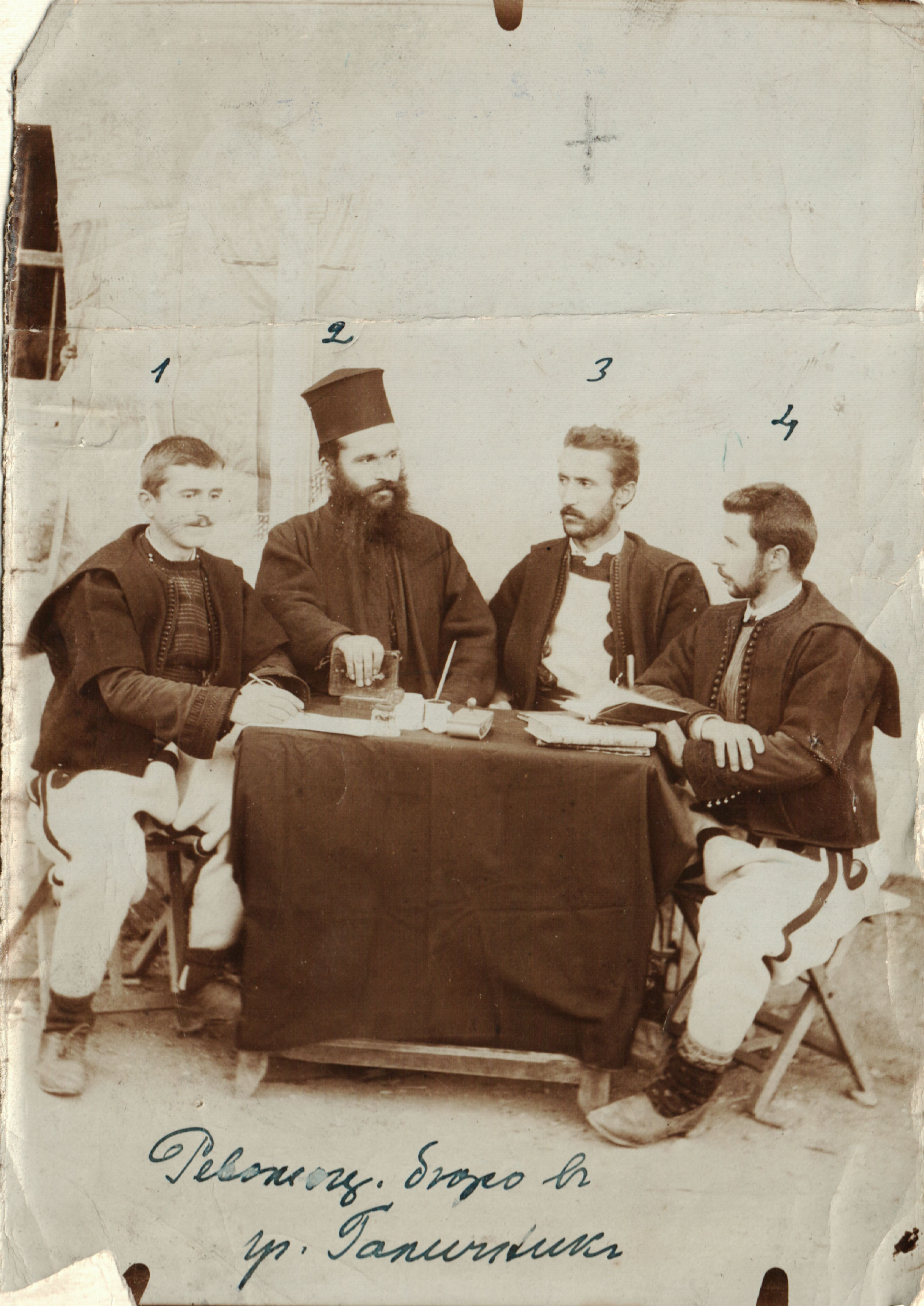 Ivan Ginovski, Amvrosiy, Yanaki Taskov and V. Cholapchiev